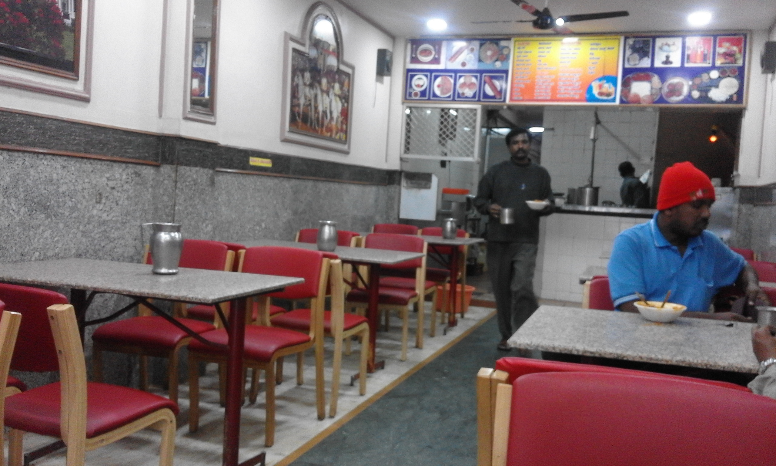 V⁬ishnu Priya Restaurant, Mysore